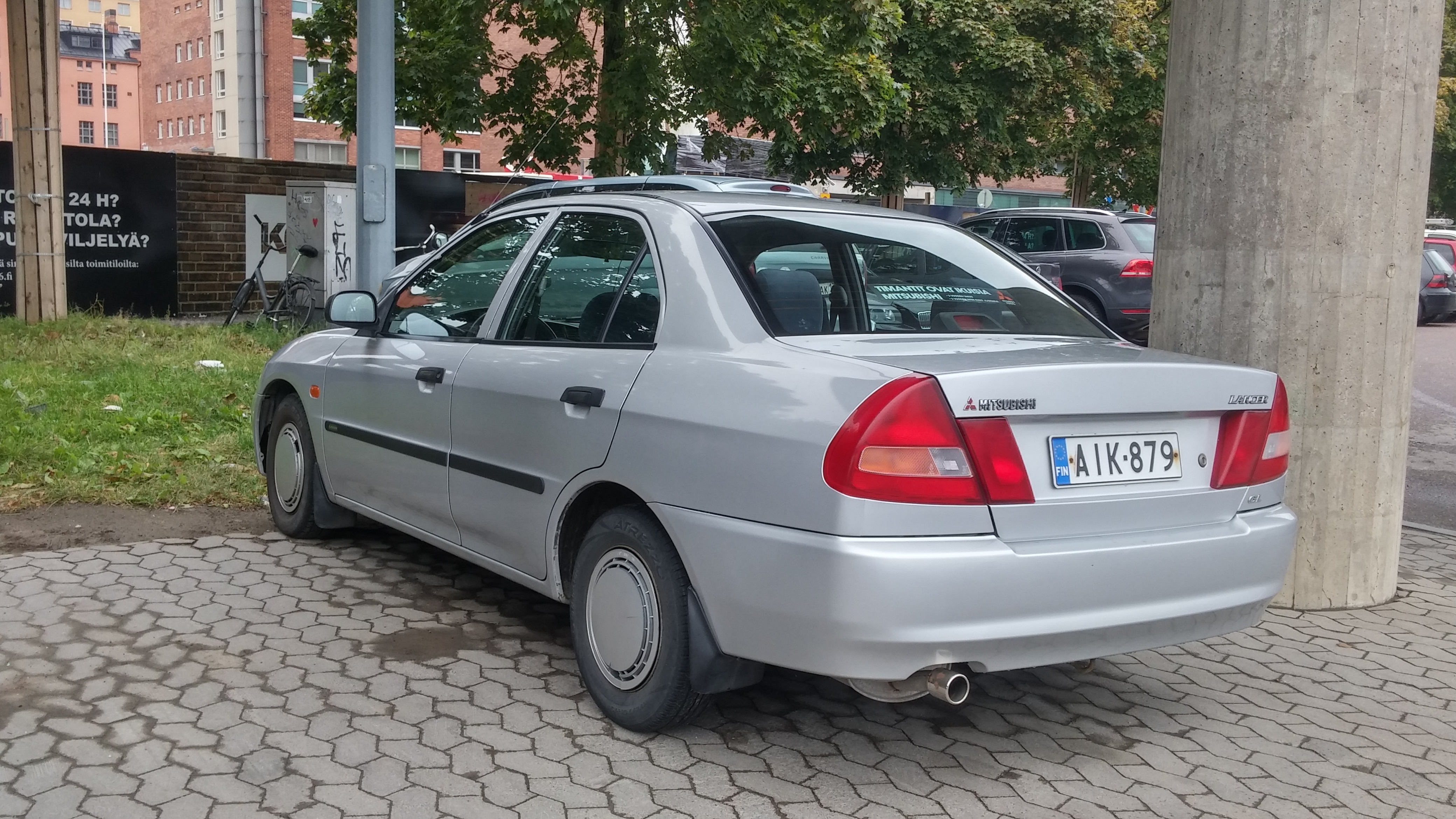 1997 Mitsubishi Lancer